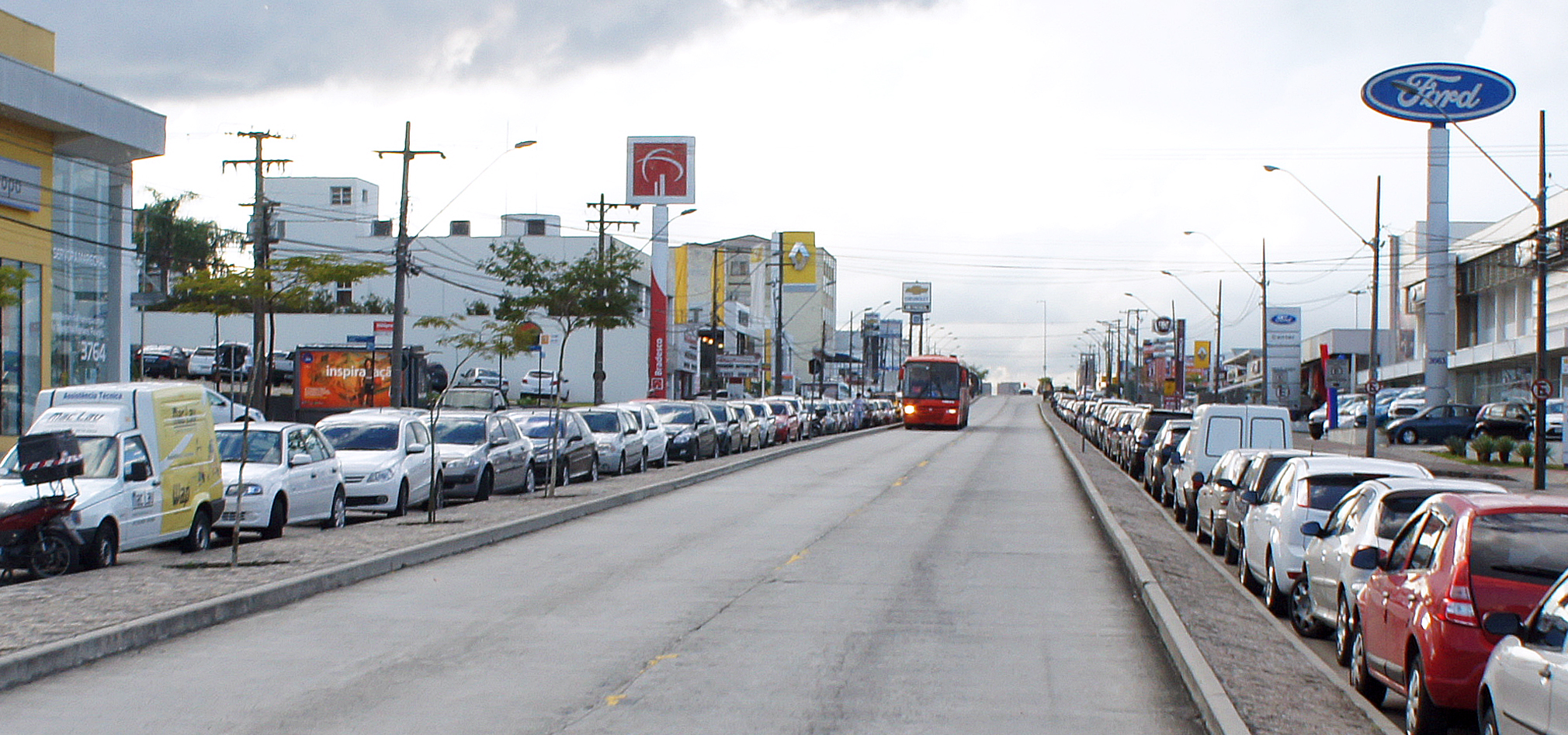 Eixo Boqueirão, Marechal Floriano Avenue, Curitiba BRT, Brazil